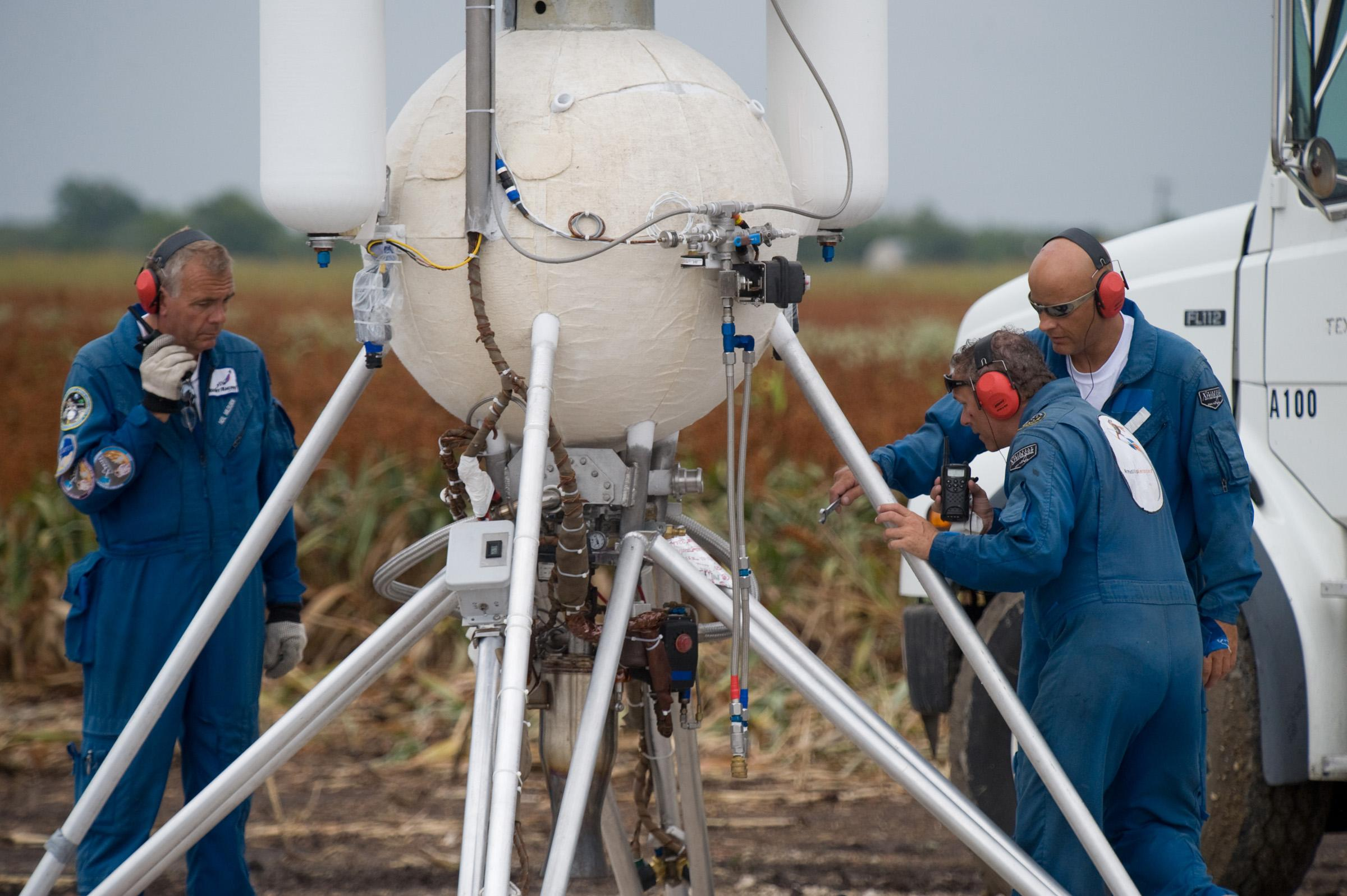 Armadillo Aerospace successfully met the Level 2 requirements for the Centennial Challenges - Lunar Lander Challenge and qualified to win a $1 million dollar first place prize. The flights were conducted at the Armadillo Aerospace test facility in Caddo Mills, Texas. To qualify for the Level 2 prize, Armadillo Aerospace's rocket vehicle took off from one concrete pad, ascended horizontally, then landed on a second pad that featured boulders and craters to simulate the lunar surface. After refuelling at that pad, the vehicle then repeated the flight back and landed at the original pad. The vehicle completed the round trip, including fuelling and refuelling operations, in one hour and 47 minutes. That was well within the two and half hour time limit for the challenge. Armadillo Aerospace also met the requirement to remain aloft under rocket power for three minutes during each of the flights. In this image, technicians Neil Milburn, Russ Blink and Mike Vinther are shown on the launch pad performing a vehicle inspection.